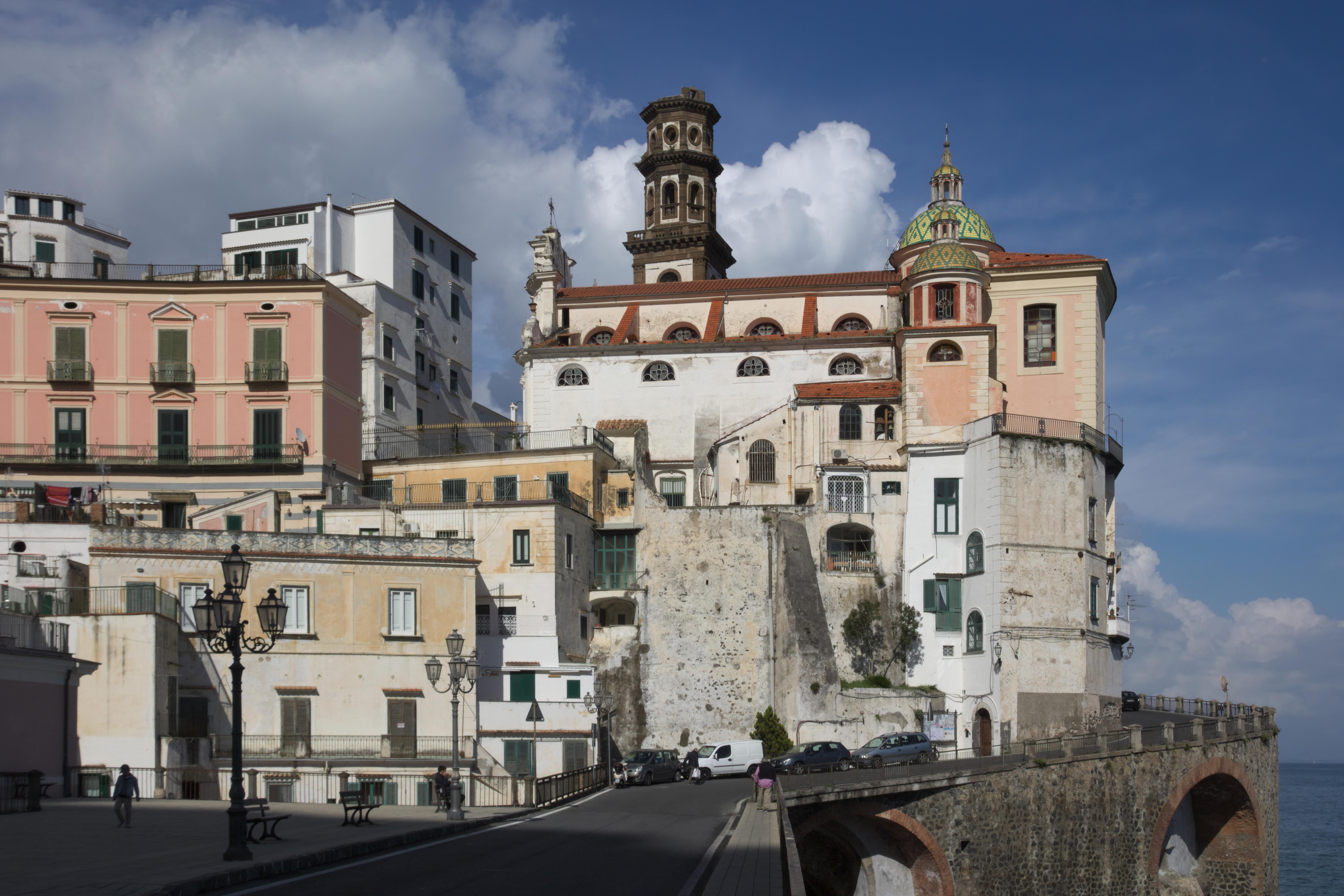 Atrani - Collegiata Santa Maria Maddalena